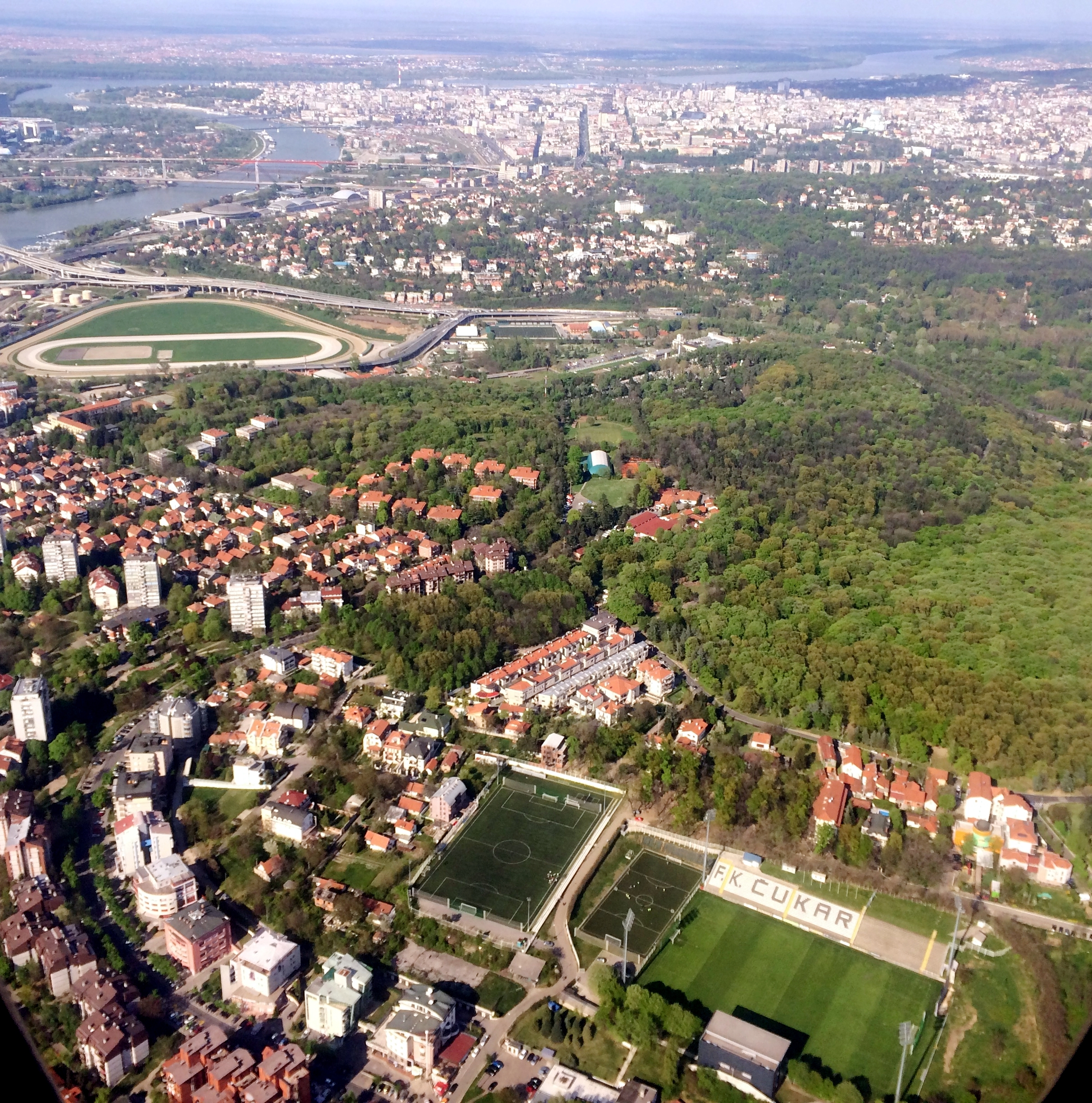 Aerial view of Beograd from the south - with Banovo Brdo (Cukarica) in the front, and Senjak (Savski Venac) in the background. The stadium is the Hippodrome Beograd.